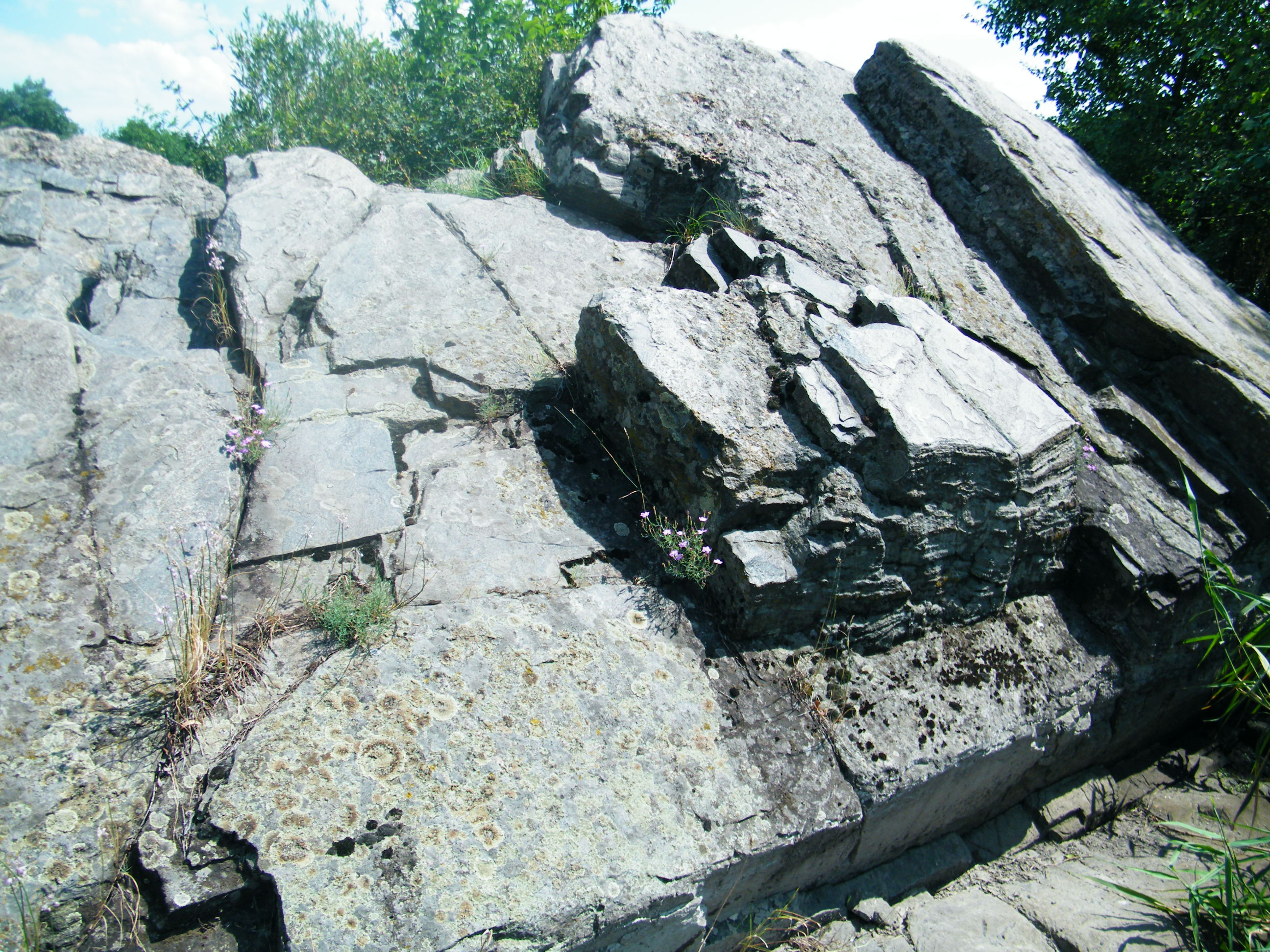 Dianthus hypanicus in Buzkiy Gard